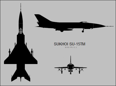 Su-15TM